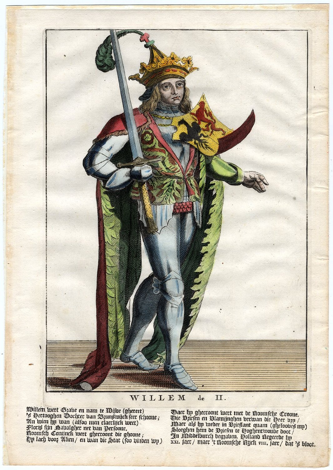 William II of Holland